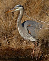 Great Blue Heron Ardea herodias, Edwin B. Forsythe National Wildlife Refuge, New Jersey Photo by Ed Idzik tel 001 609 391 1839 larger copyrighted image at